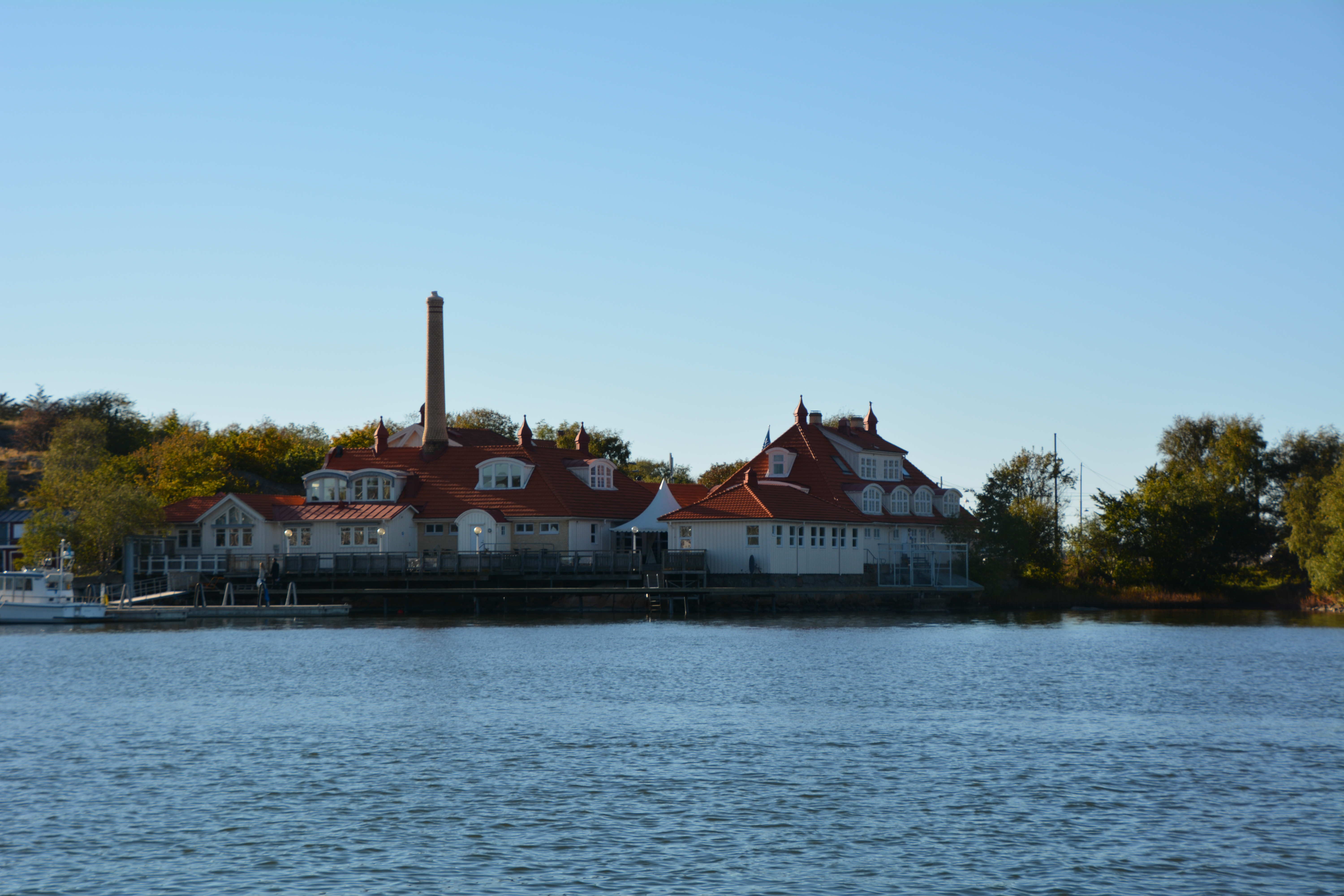 Saltholmens varmbadhus